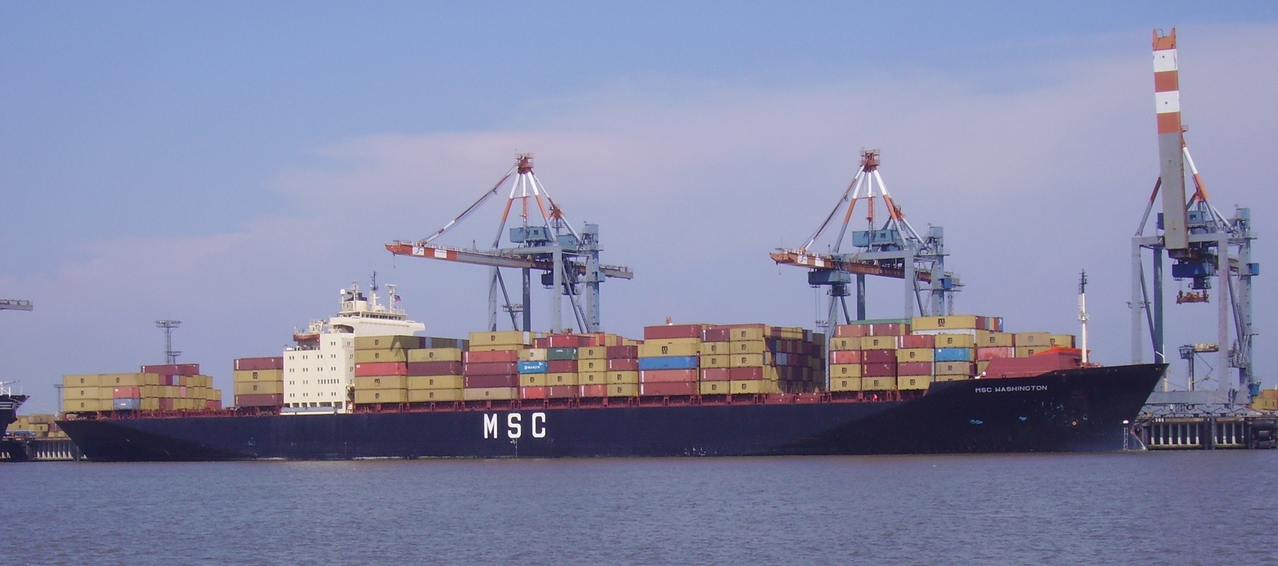 The container ship "MSC Washington" in Bremerhaven, Germany IMO Number: 8300145 MMSI Number: 239650000 Callsign: SYJV Length: 267 m Beam: 32 m